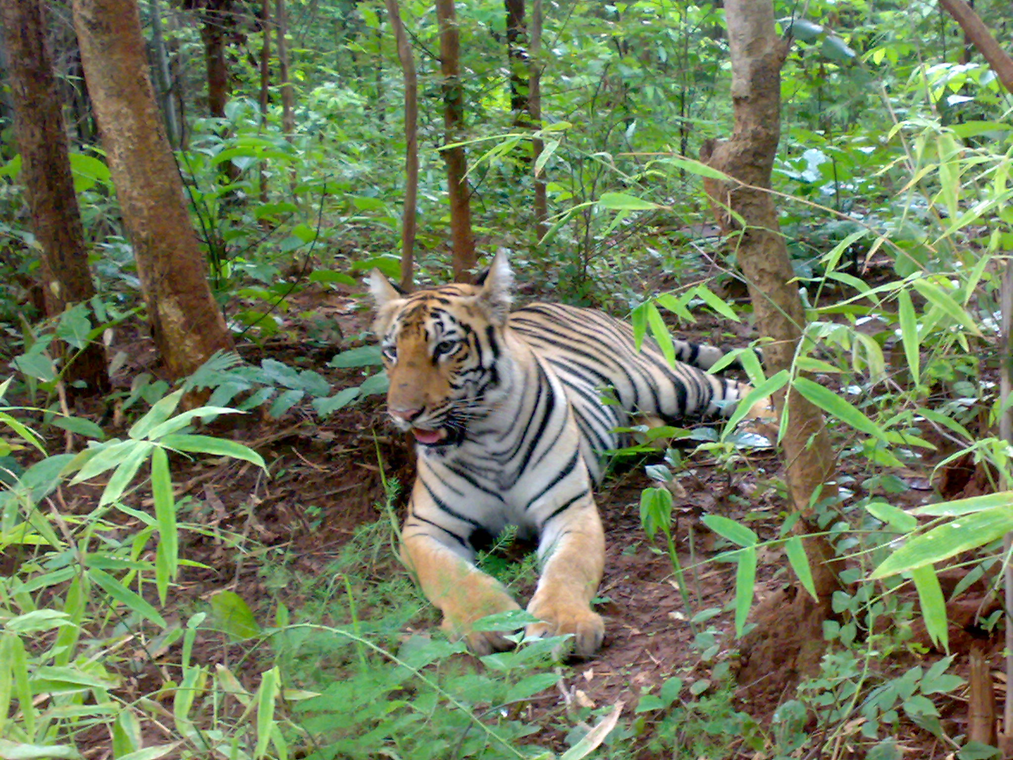 Seen at Tadoba tiger Reserve